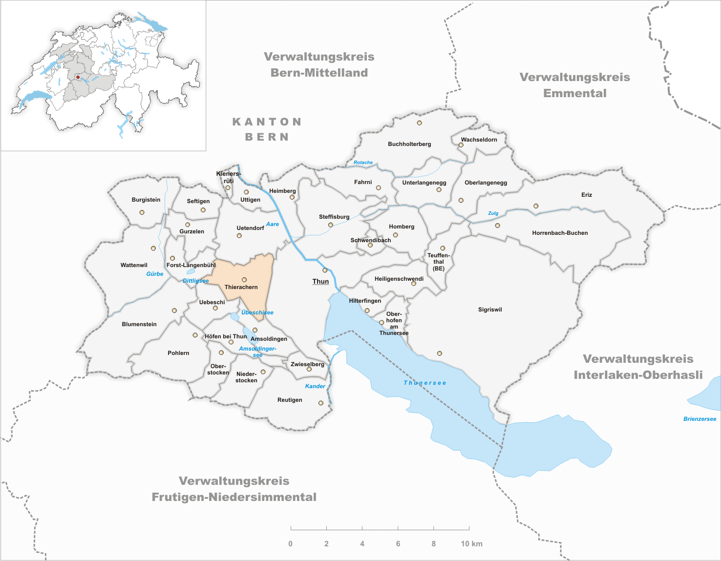 Municipality Thierachern